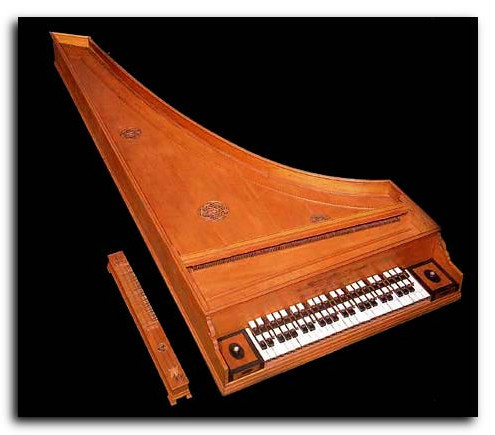 Clavemusicum omitonum modulis diatonicis cromaticis et enearmo[nici]s by Vito Trasuntino